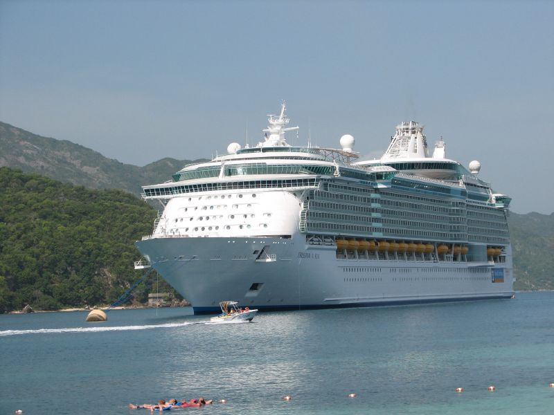 Cruise ship MS Freedom of the Seas at Labadee, Haiti, close to Cap-Haïtien.